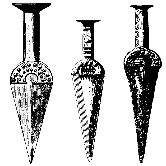 Triangular daggers with solid handdle from the Early Bronze Age (1800 adC-1500 adC). It is characteristic from Unetice culture, but that ones comes from several archaeological sites of Italy